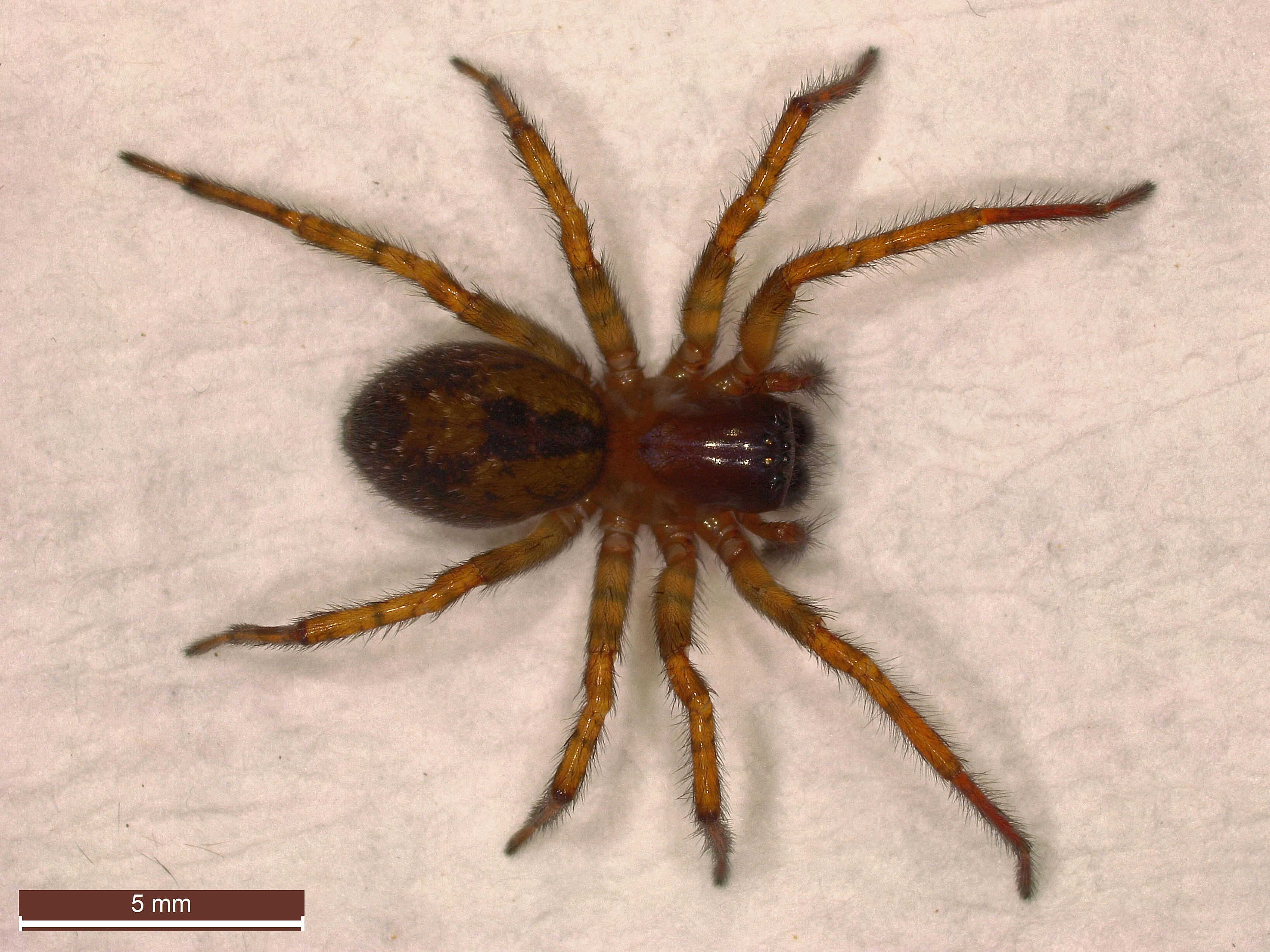 Amaurobius fenestralis (Ström, 1768), female, extracted from beech leaf litter using Berlese funnel, Gribskov near Kagerup, Denmark, 27 January to 16 February 2018